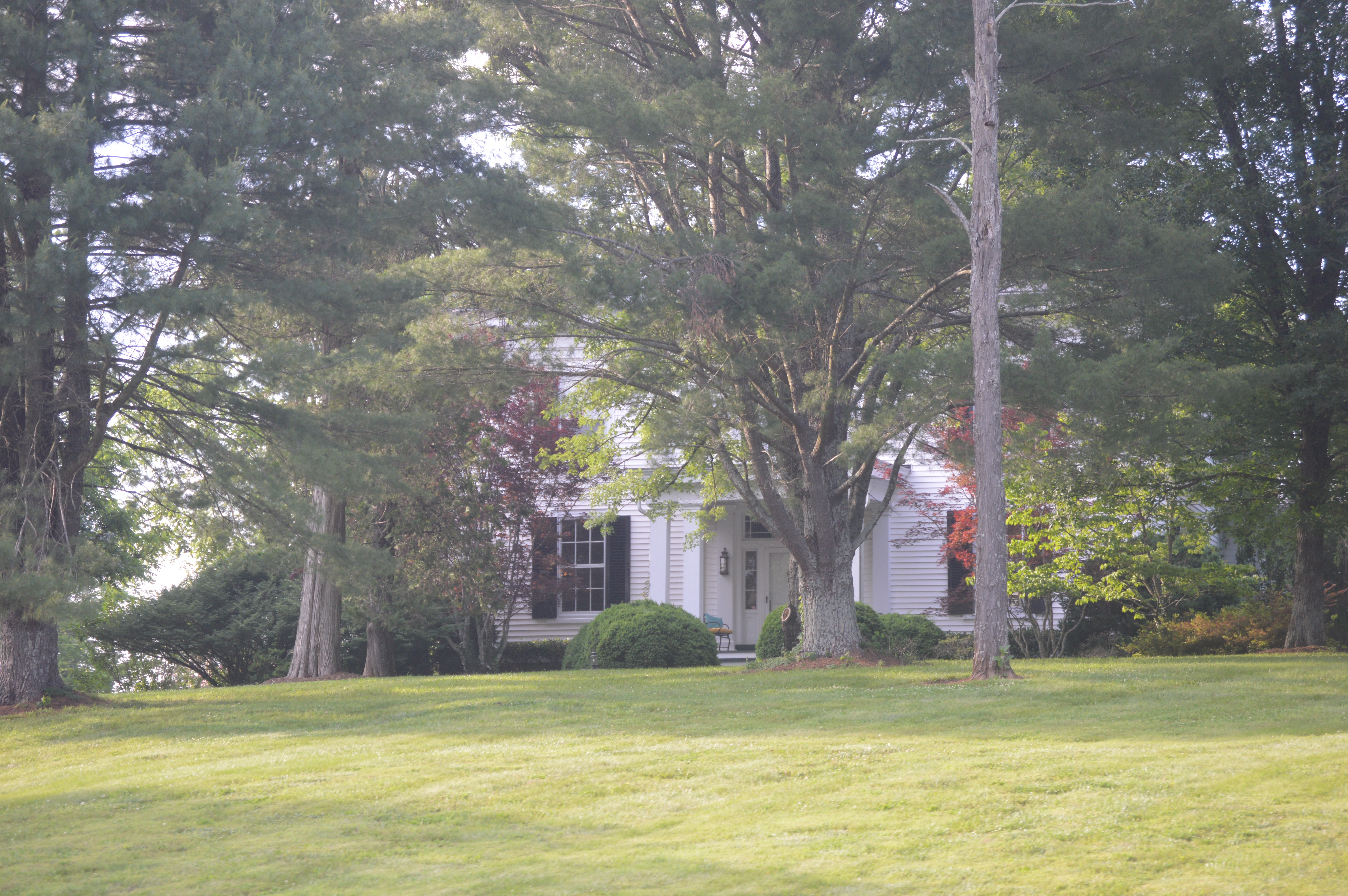 Front of Waverly, located on State Route 122 northeast of Burnt Chimney in Franklin County, Virginia, United States. Built in 1858, it is listed on the National Register of Historic Places.